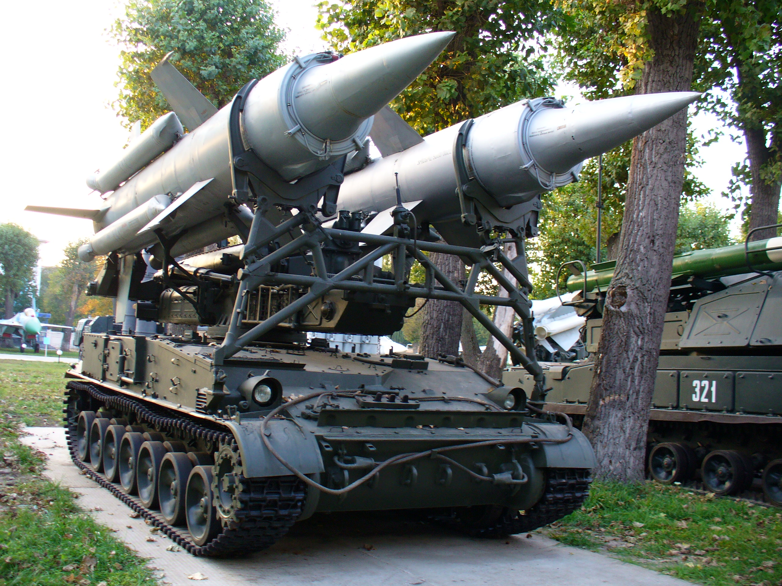 Soviet and Russian surface-to-air missile (SAM) system "2K11". NATO reporting name is SA-4 Ganef. Ukrainian Air Force Museum in Vinnitsa.